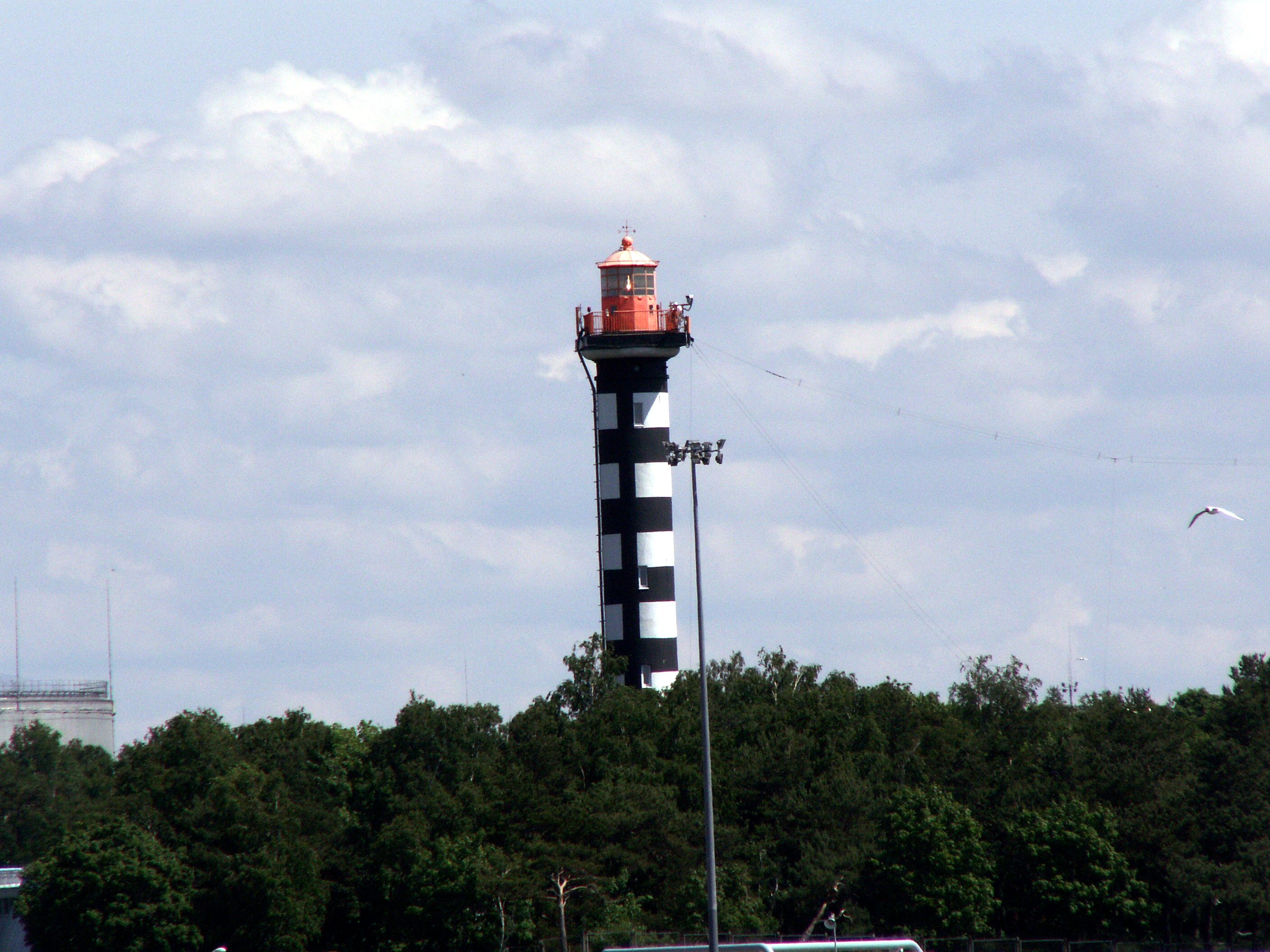 Smiltynė, Klaipėda, Lithuania